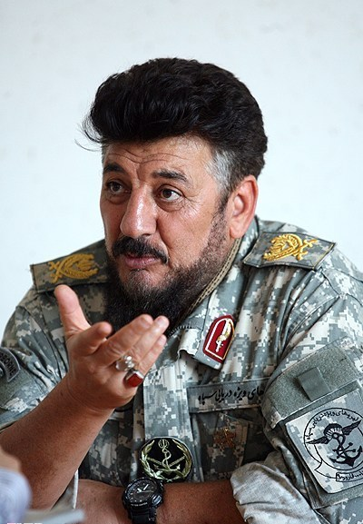 Mohammad Nazeri